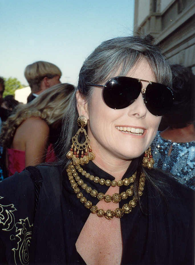 Kathleen Sullivan on the red carpet at the 41st Annual Emmy Awards, 9/17/89